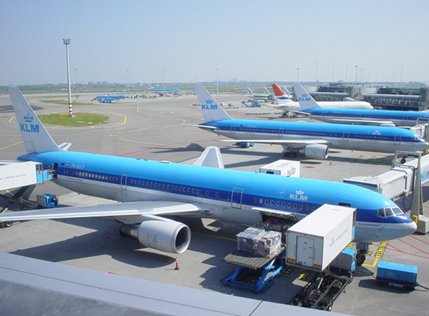 KLM aircraft at Schiphol.